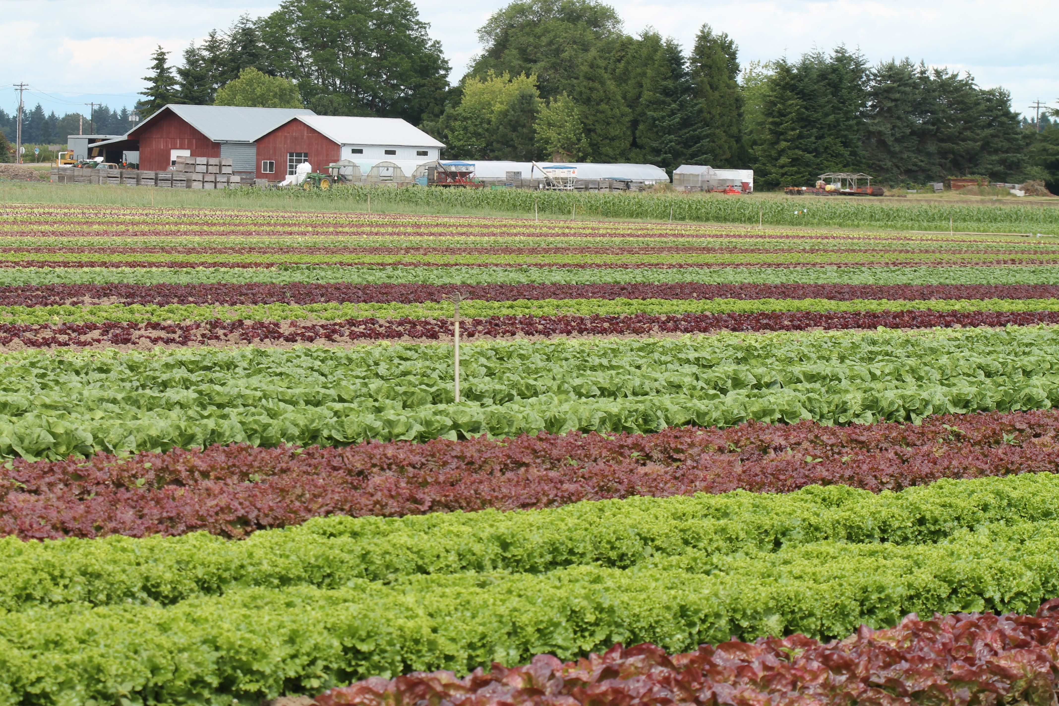 Mustard Seed Farms, Organic CSA near Newberg, Oregon.